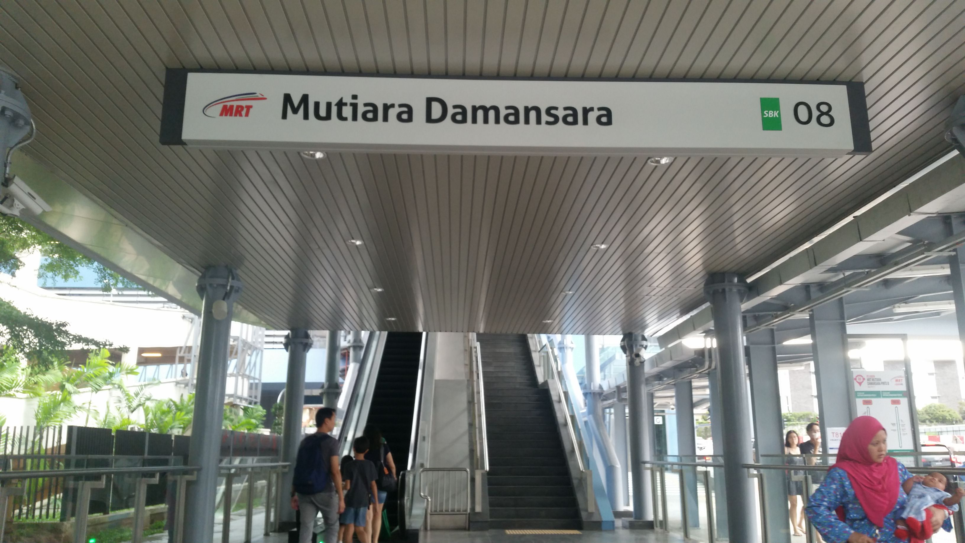 The entrance to the station through Entrance A.